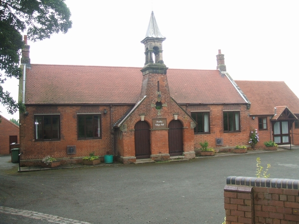 Village Hall Near to the church this looks as if it was originally a school.